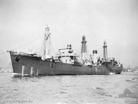 Sourced from: Copyright: The AWM record for this photo states that the copyright status is 'clear'. The photo was taken prior to 1946. AWM Caption: SYDNEY, NSW. PORT SIDE VIEW OF THE AUXILIARY MINELAYER HMAS BUNGAREE. THE SHIP IS ARMED WITH A 12 POUNDER AA GUN FORWARD AND TWO 4 INCH GUNS AFT WITH THE HALF SHIELDS ORIGINALLLY MOUNTED ON THEM REMOVED. SINGLE 20 MM OERLIKON AA GUNS ARE MOUNTED PORT AND STARBOARD NEAR THE FOREMAST, IN THE BRIDGE WINGS (WHERE THERE ARE NOW FOUR, RATHER THAN THE ORIGINAL TWO) AND IN THE WAIST. SINGLE 2 POUNDER AA GUNS ARE MOUNTED ON EITHER SIDE OF THE THIRD MAST. A TYPE 271 RADAR HAS BEEN FITTED AT THE BACK OF THE BRIDGE WHICH HAS PROTECTIVE PLATING ON ITS FACE. THE SHIP IS NOW PAINTED IN A TWO TONE CAMOUFLAGE SCHEME IN PLACE OF THE ALL OVER GREY PREVIOUSLY WORN. NOTE THE LANDING SHIP INFANTRY HMAS WESTRALIA IN THE RIGHT BACKGROUND. (NAVAL HISTORICAL COLLECTION)